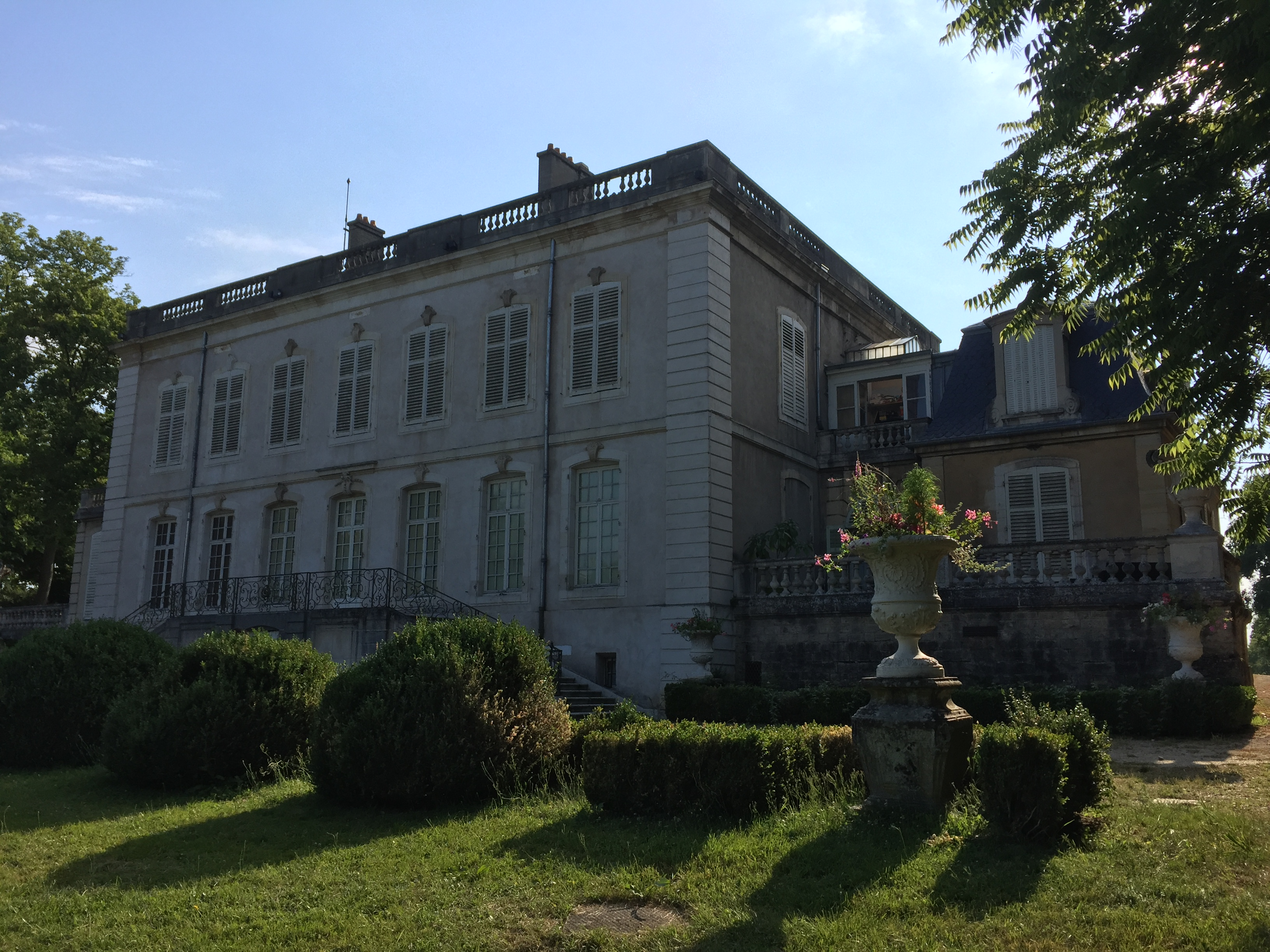 Rear of Château de Montaigu in Jarville-la-Malgrange, France in 2018